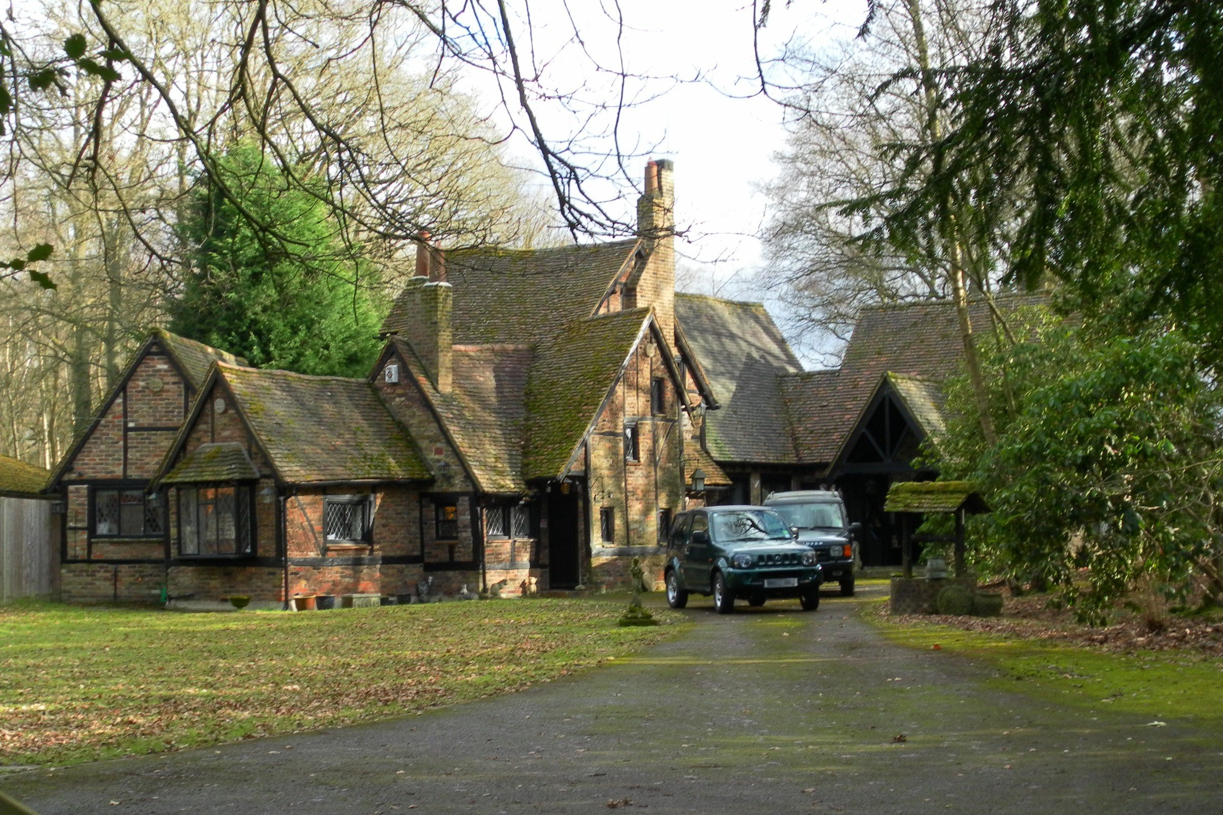 Cottage in the Wood, Balcombe Road, Tinsley Green, Borough of Crawley, West Sussex, England. One of the borough's locally listed buildings.